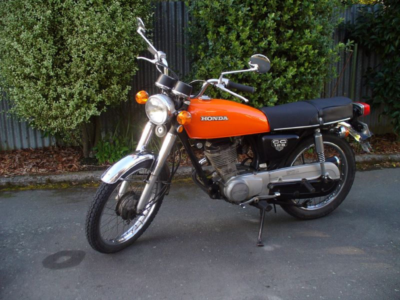 The sweet microPledge mascot